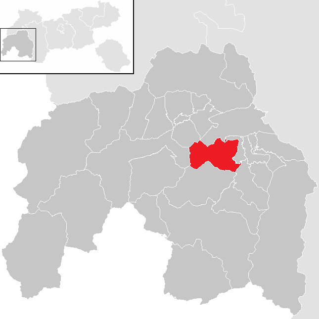 District Landeck